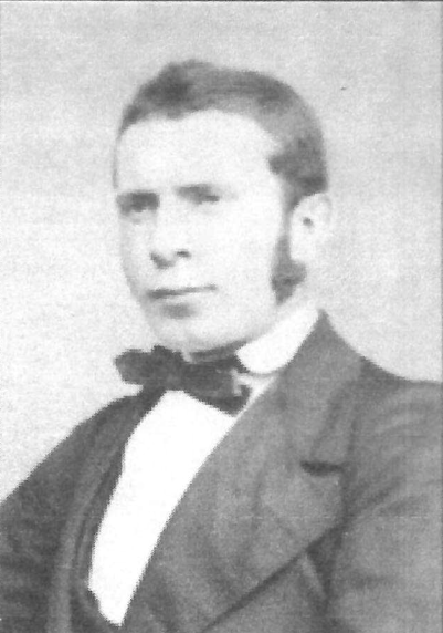 A scanned digitised copy of a 19th century portrait of the Rev. Fritz Ramseyer, Basel missionary captured by the Asantes. The identity of the photographer is unknown.